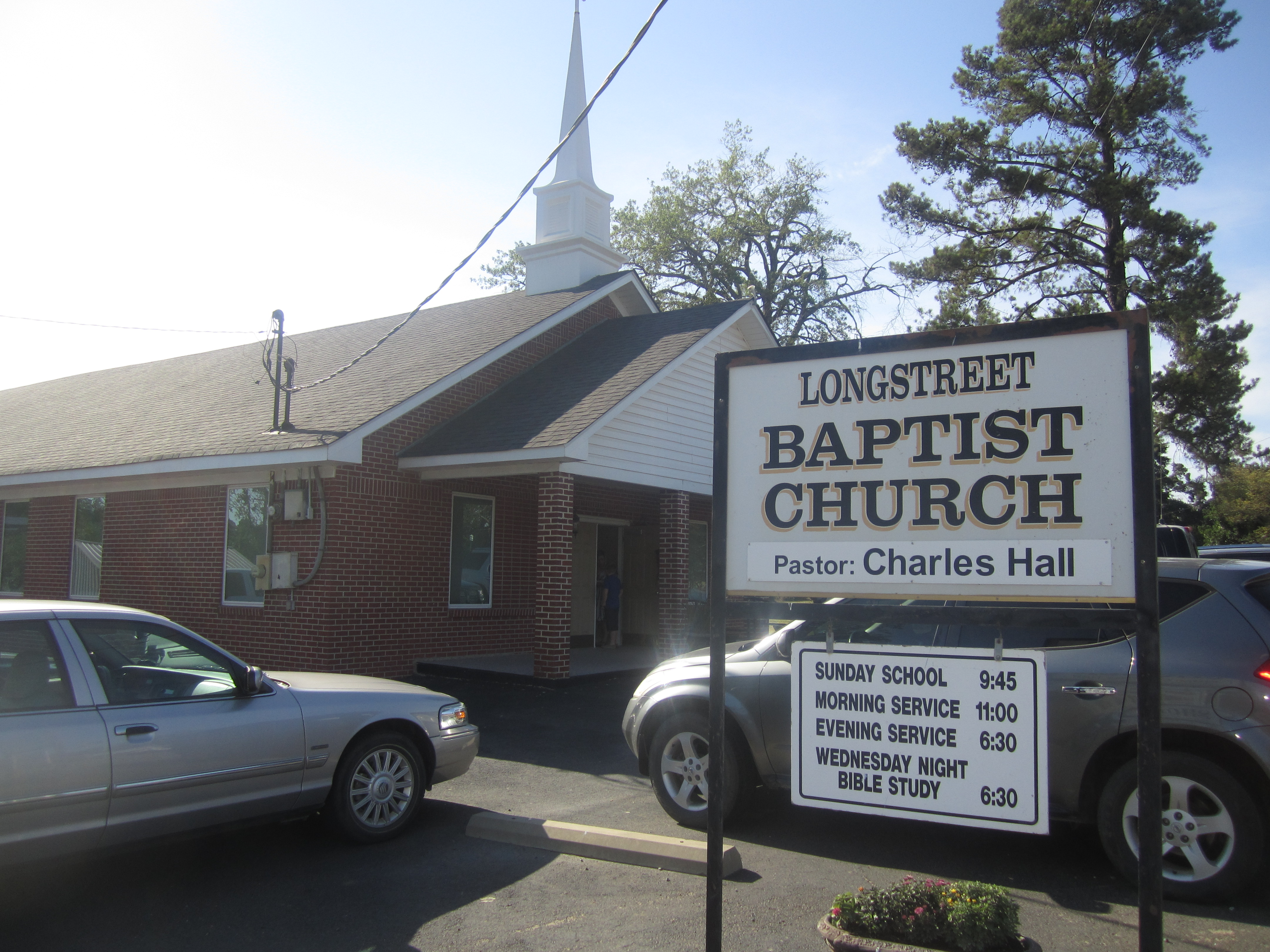 I took photo with Canon camera of Longstreet, LA, Baptist Church.